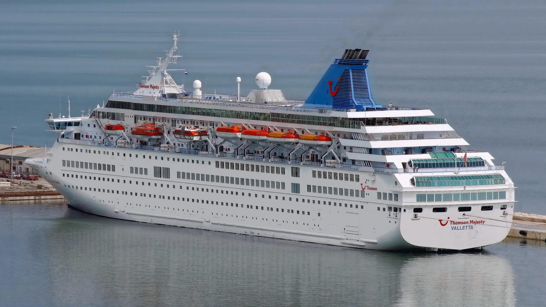 Time: May 07, 2013; CEST 15:07:35 Ship position: N 43°30'05", E 16°26'16"Heading 93°